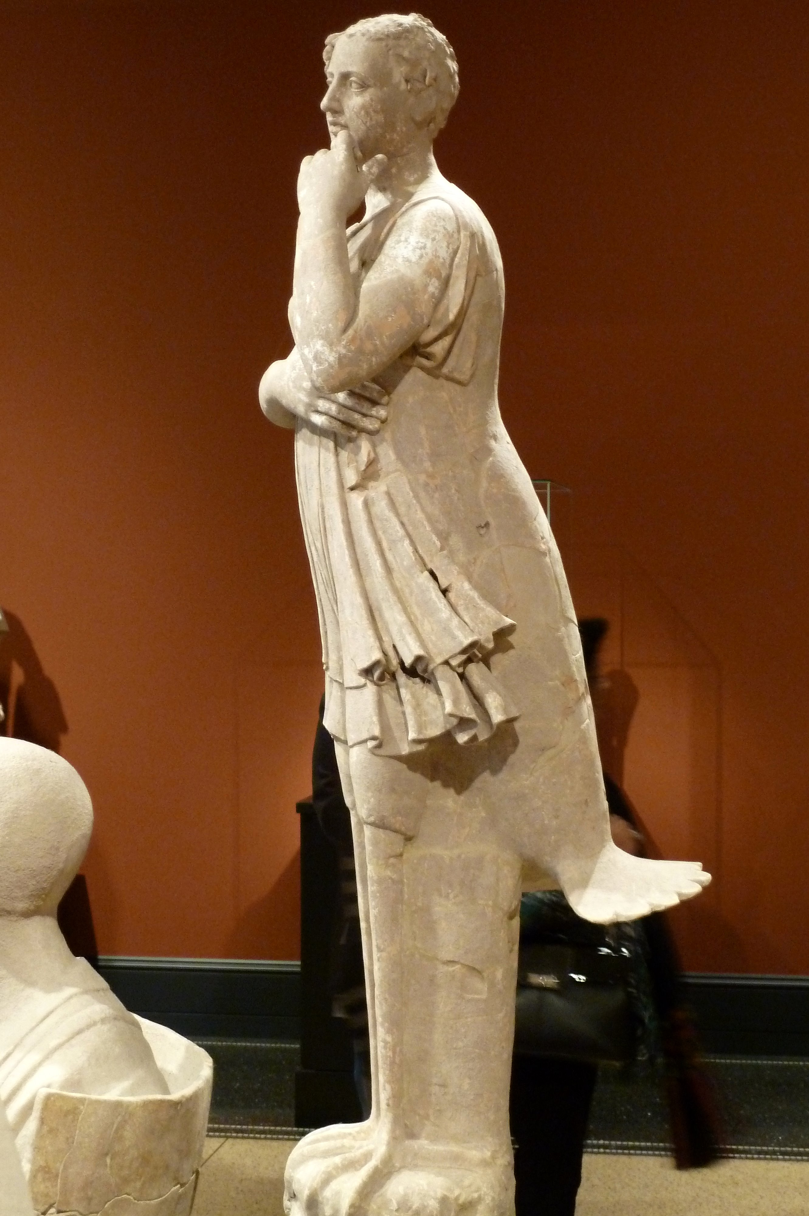 Poet as Orpheus with Two Sirens (Greek, S Italy, 350-300 BC)